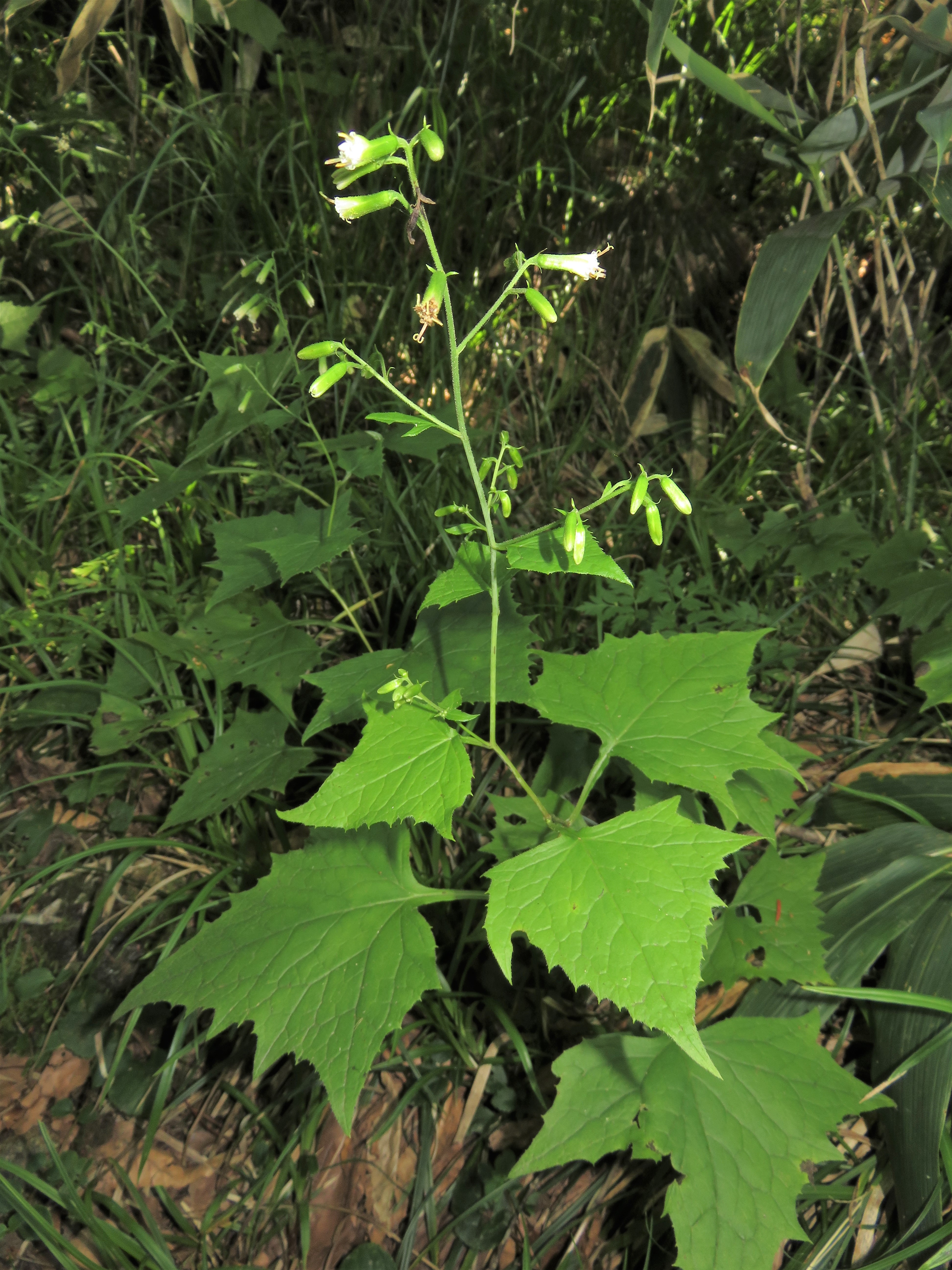 Parasenecio hayachinensis, Mount Hayatine-san, Iwate pref., Japan